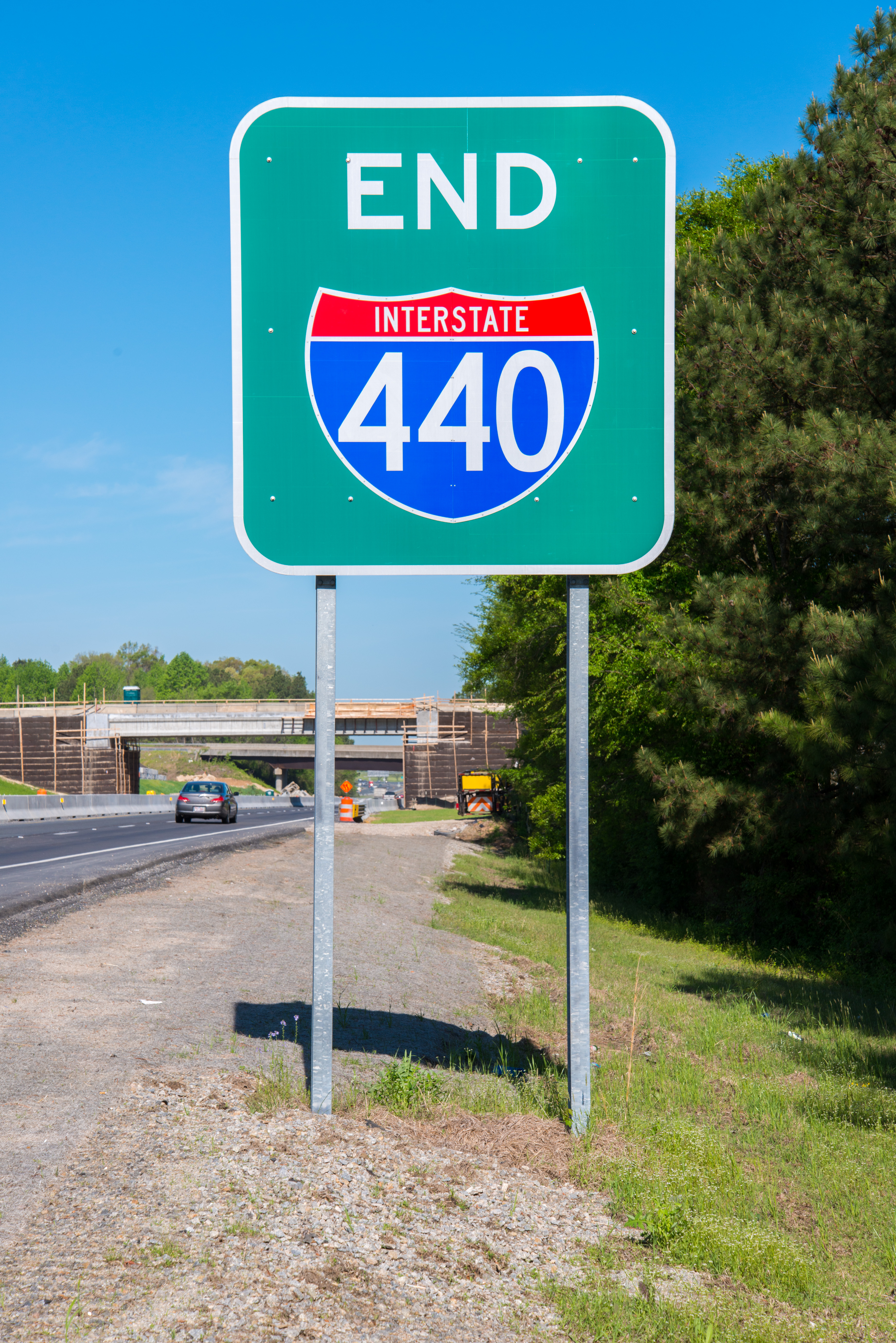 East end of I-440 along westbound US 64 and merging westbound I-40, in Raleigh, North Carolina.